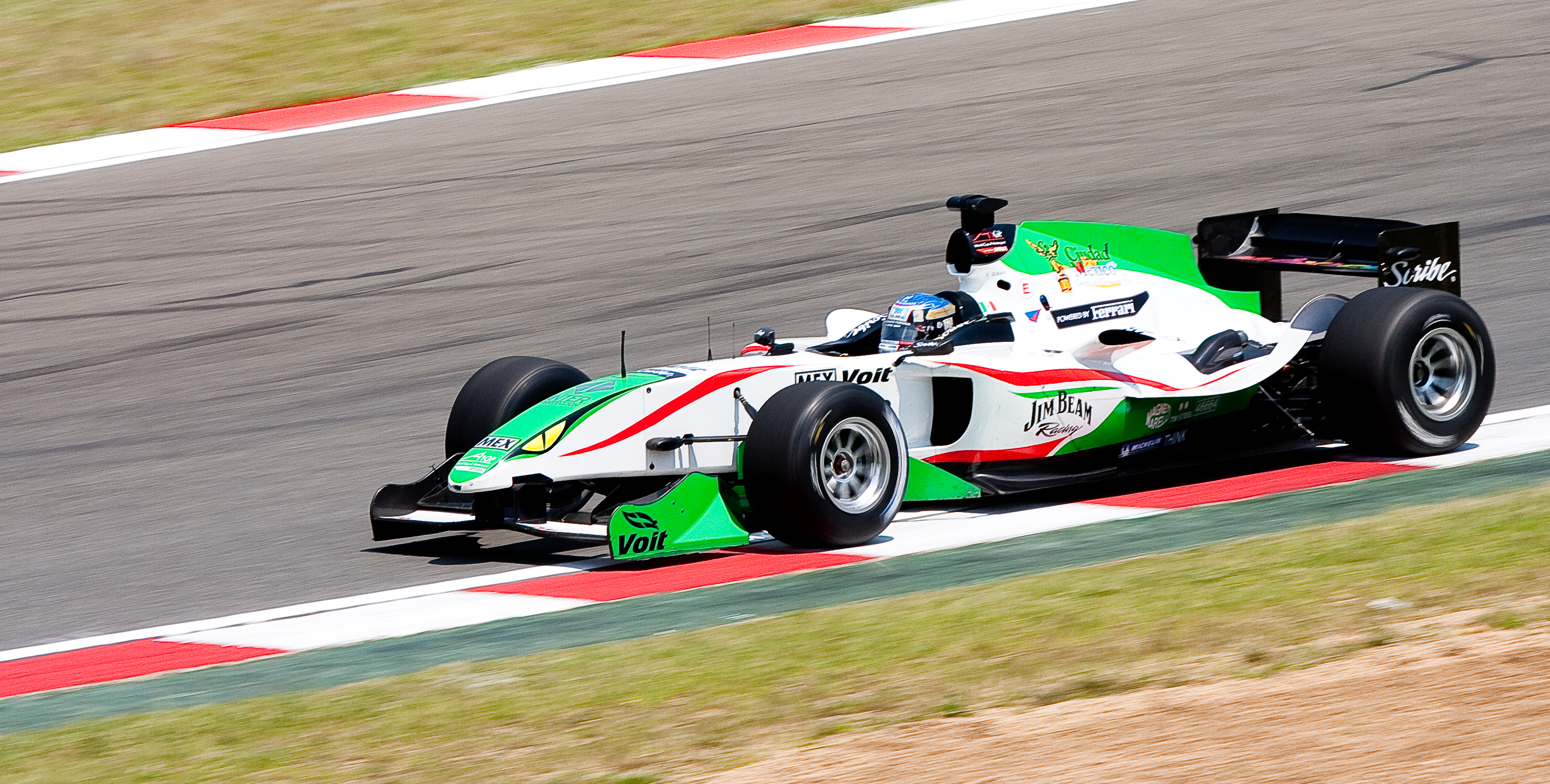 Team Mexico @ A1 Grand Prix Kyalami South Africa 2009